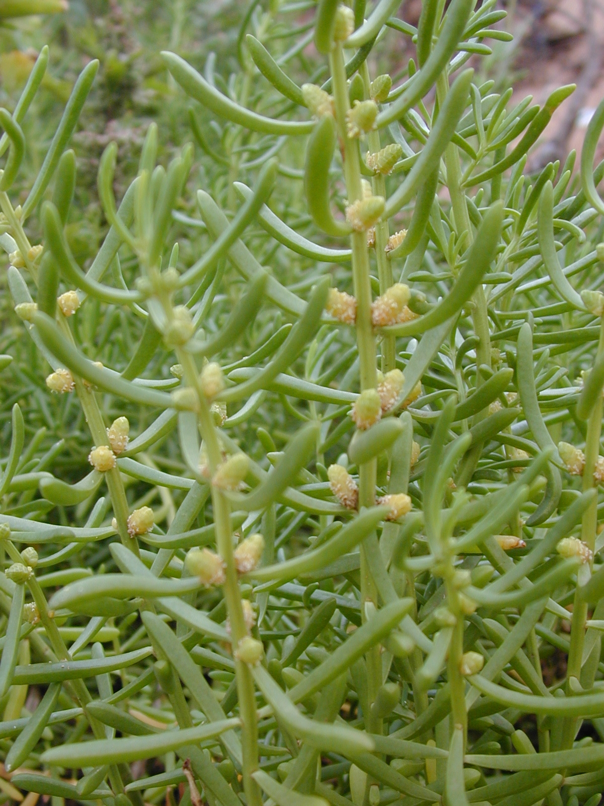 Batis maritima (male). Location: Maui, Kanaha Beach